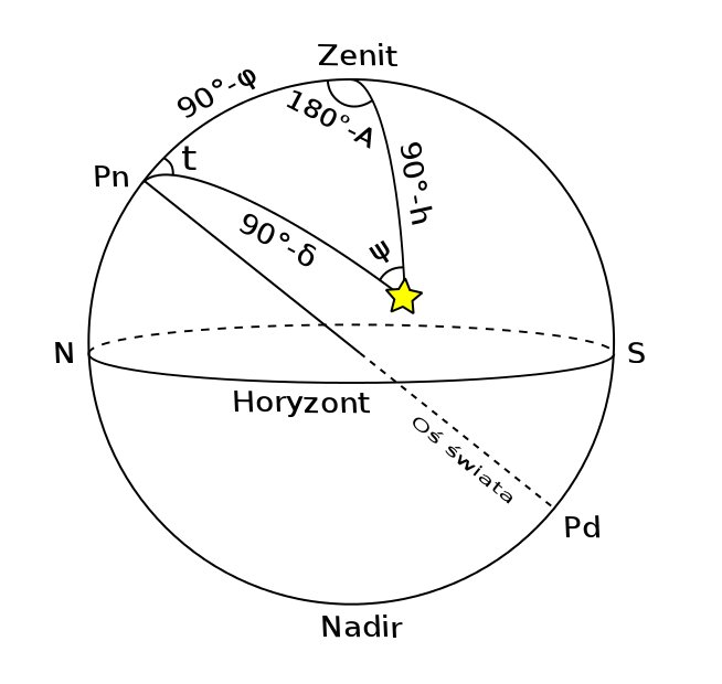 paralactic triangle